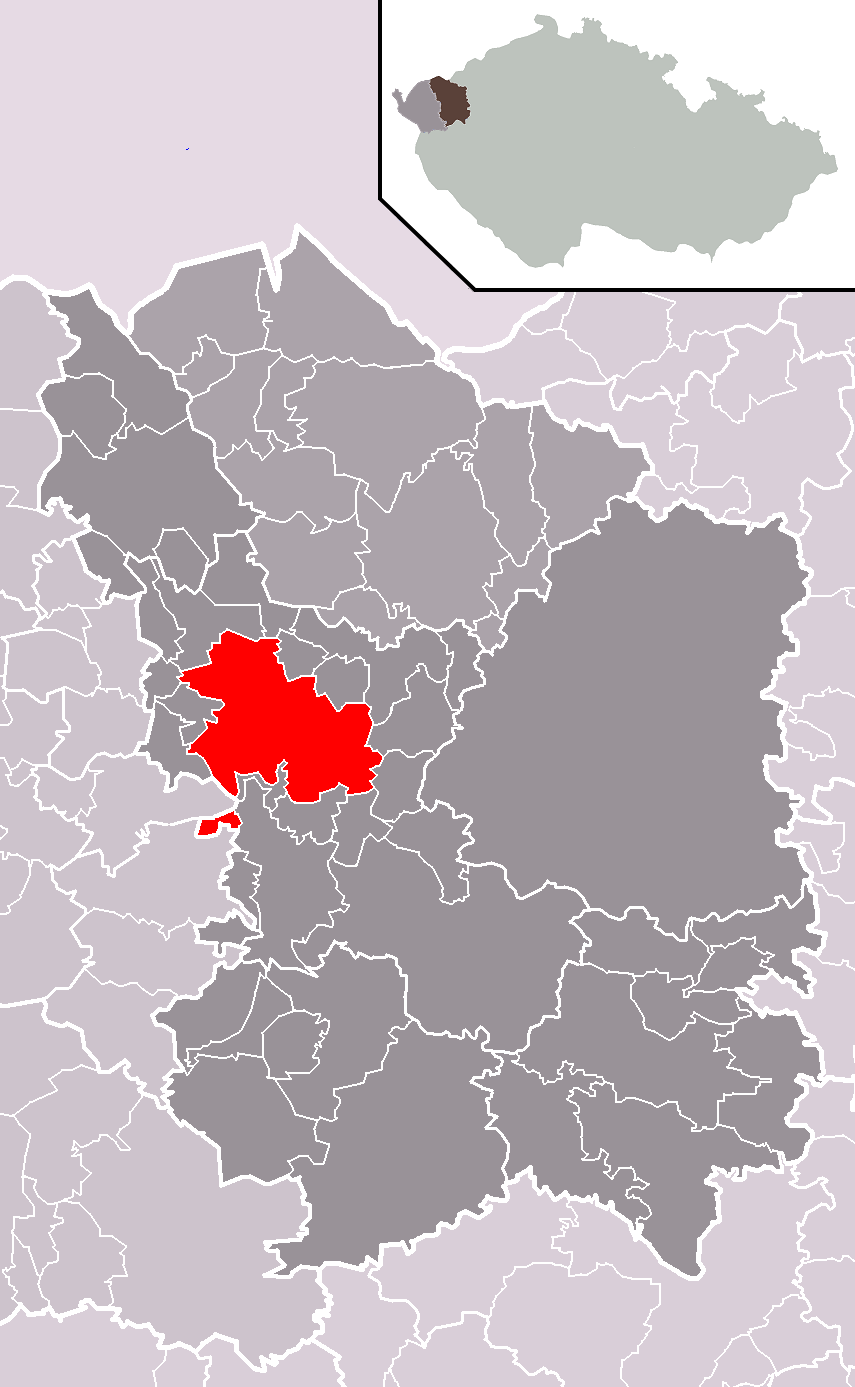 Location of Karlovy Vary city within Karlovy Vary District and administrative area of Karlovy Vary as a Municipality with Extended Competence.